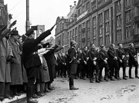 Nazi troops and supporters in front of De Bijenkorf, Dam Square, Amsterdam, The Netherlands, 1941 (crop of original 1941 public domain photo).